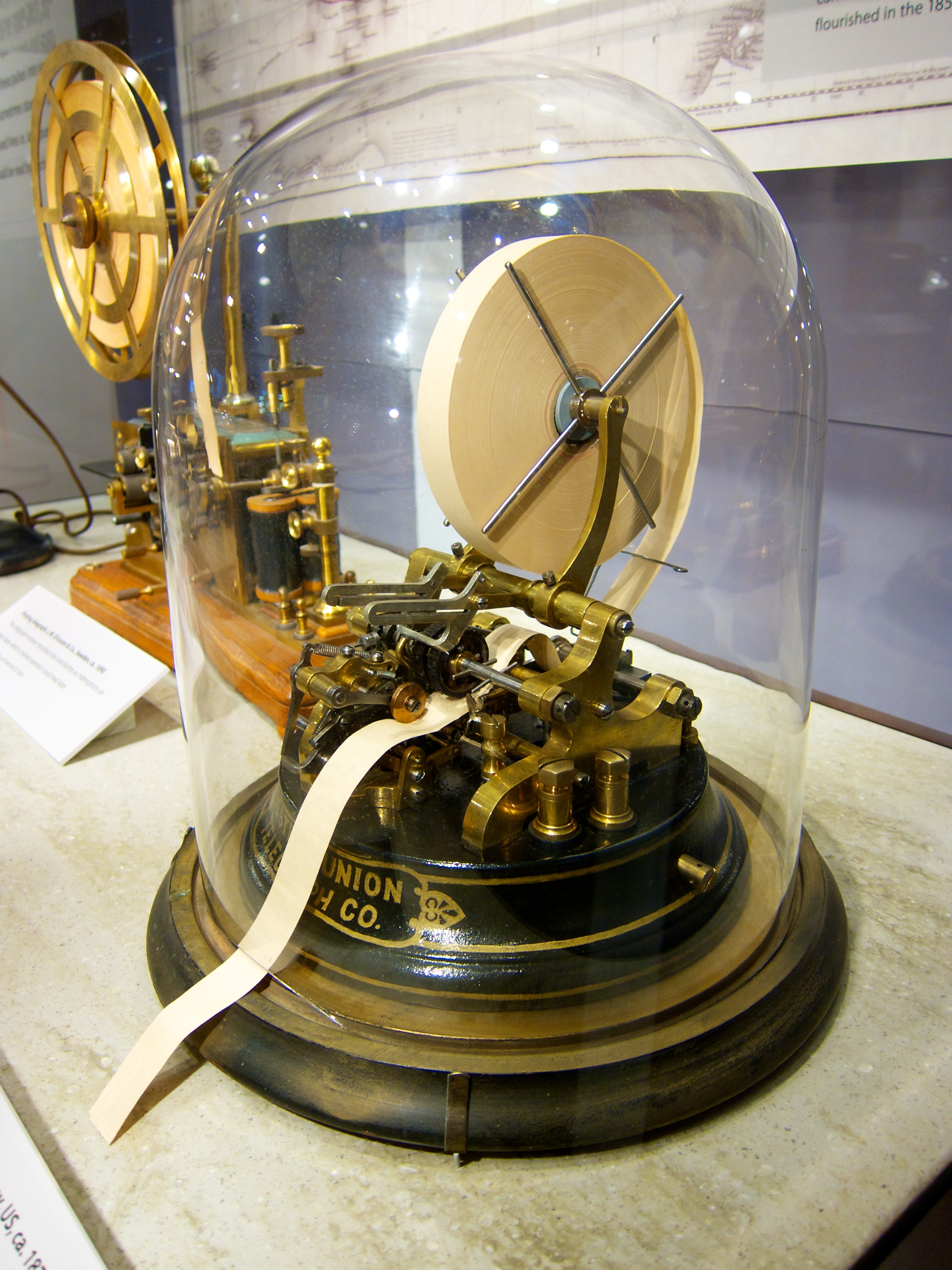 Western Union Universal 3-A stock ticker, in the Computer History Museum